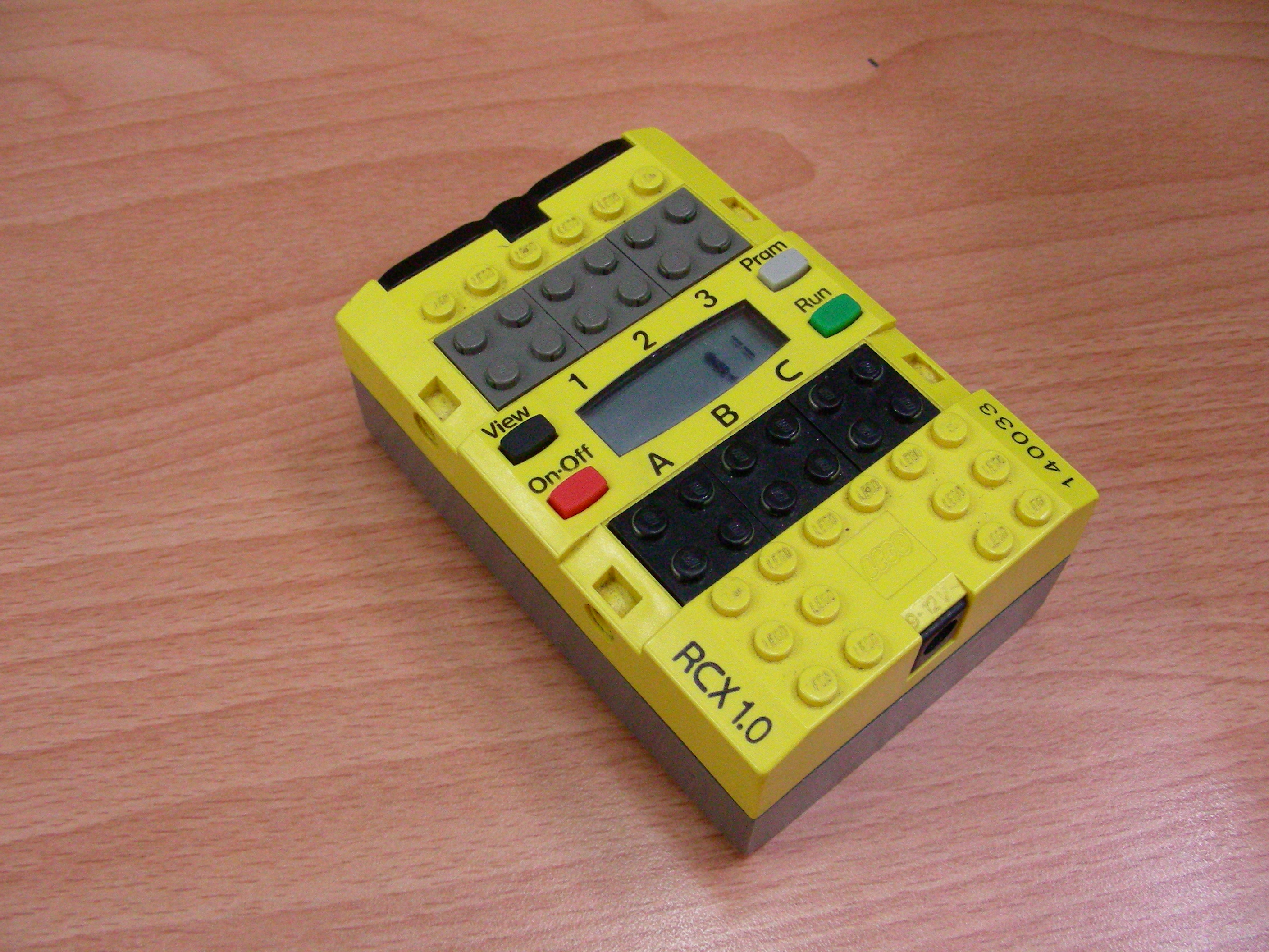 Lego Mindstorms RCX